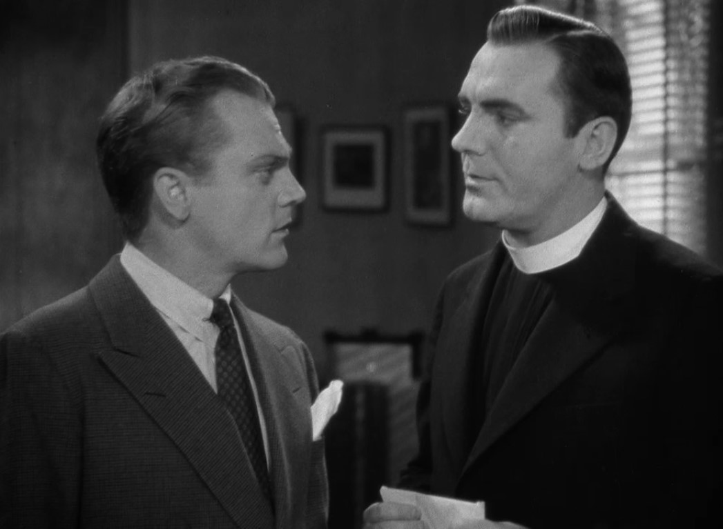 screenshot of James Cagney and Pat O'Brien from the film Angels with Dirty Faces